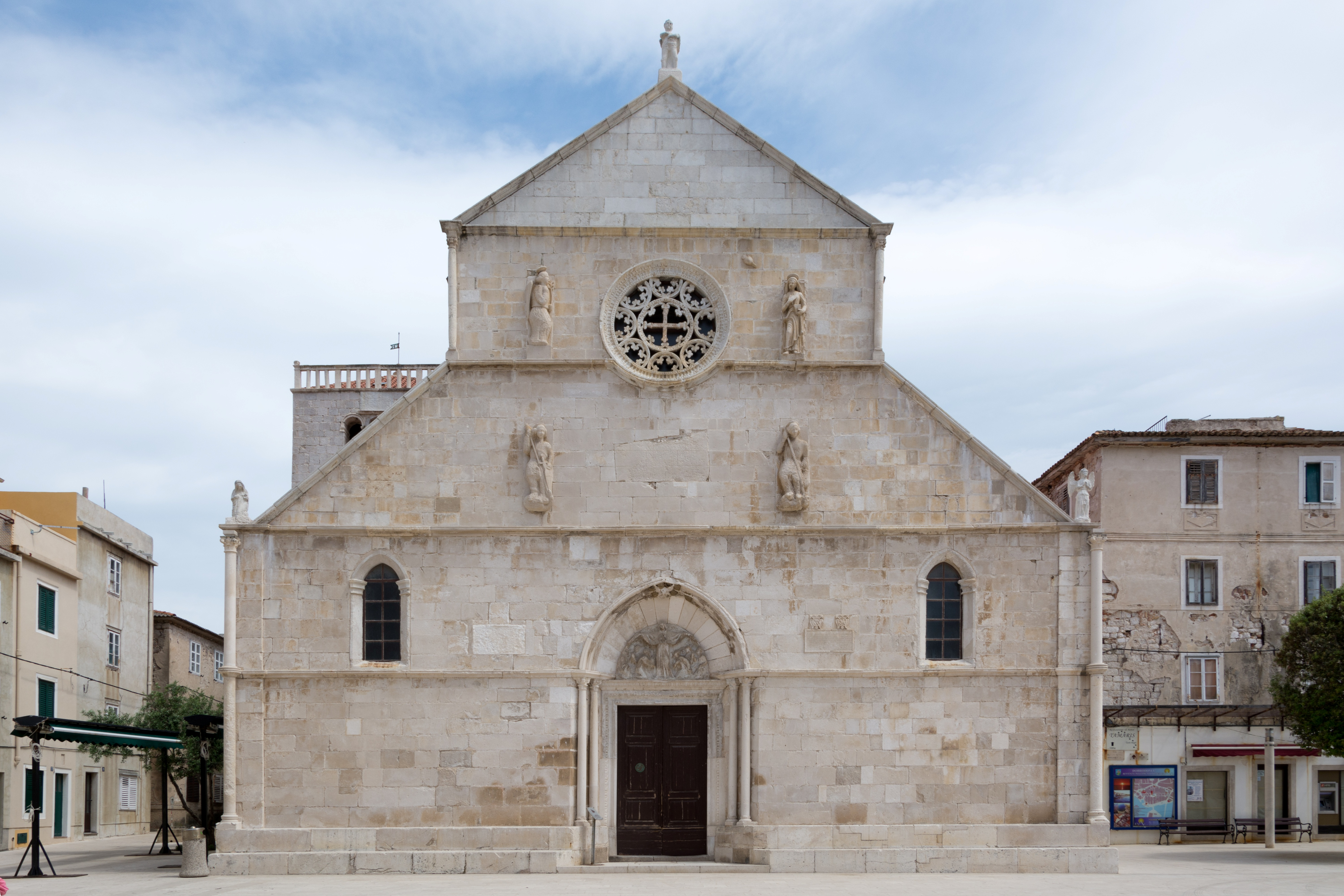 The basilica of the Assumption of Mary, built in the 15th century, is on the square Kralja Kresimira of Pag (town). In the tympanon of the main portal there is a relief of Jesus Christ. In the facade there are a rose window with lacy details and four statues of saints.